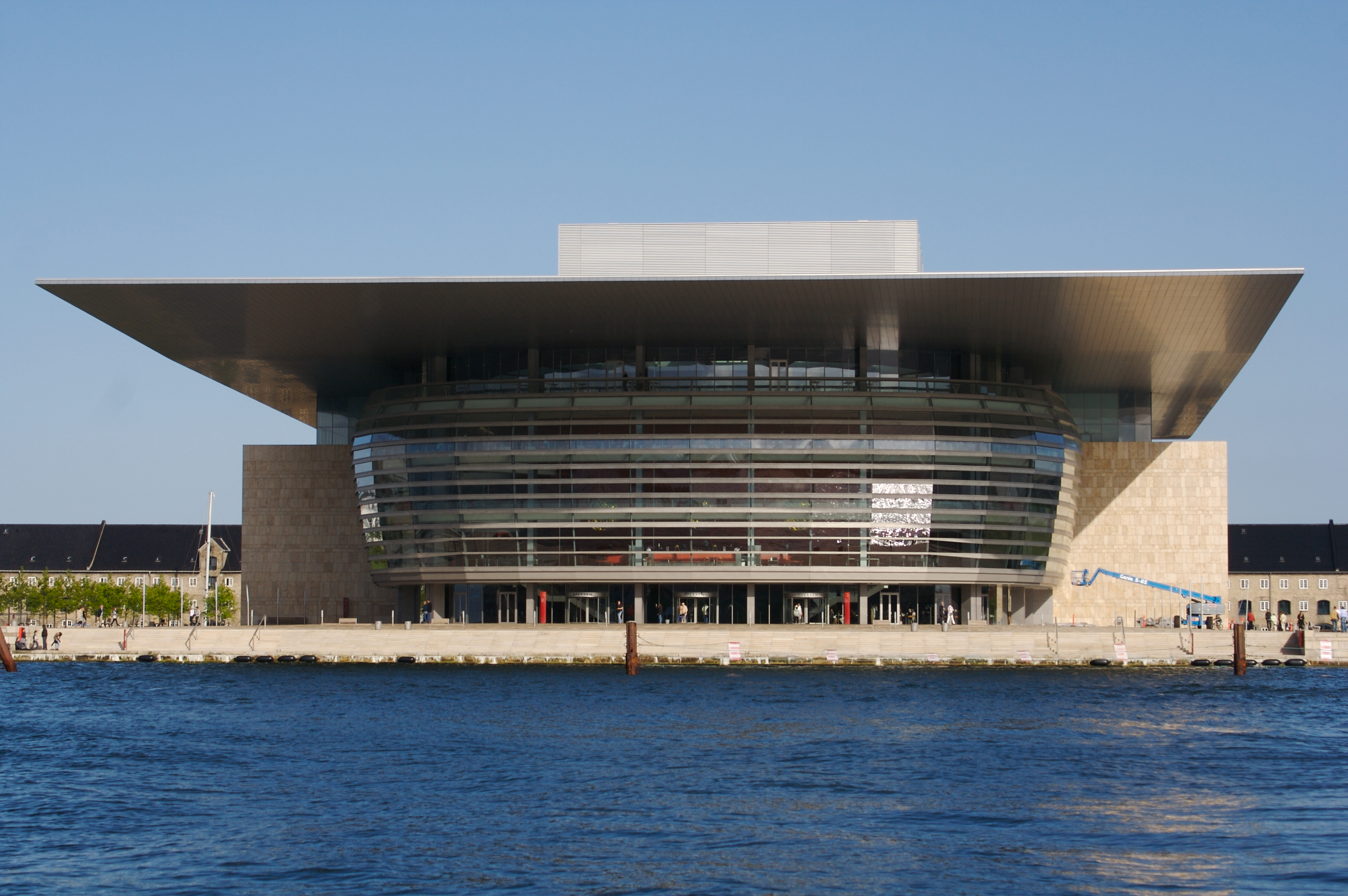 Copenhagen Opera House - front view